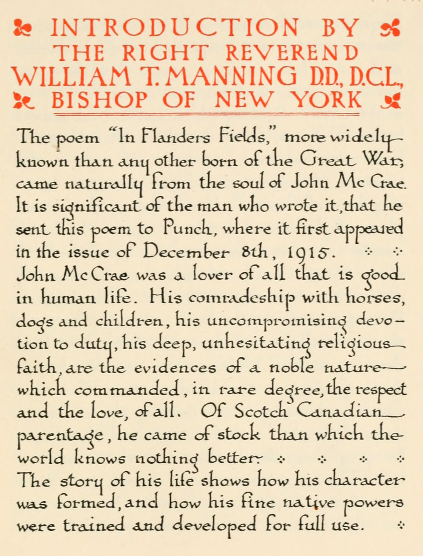 Page 1 of the introduction from a limited edition book containing an illustrated poem, In Flanders Fields, 1921